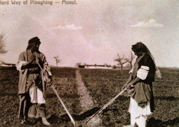 Hard way of ploughing - Mosul. Dated 1910.